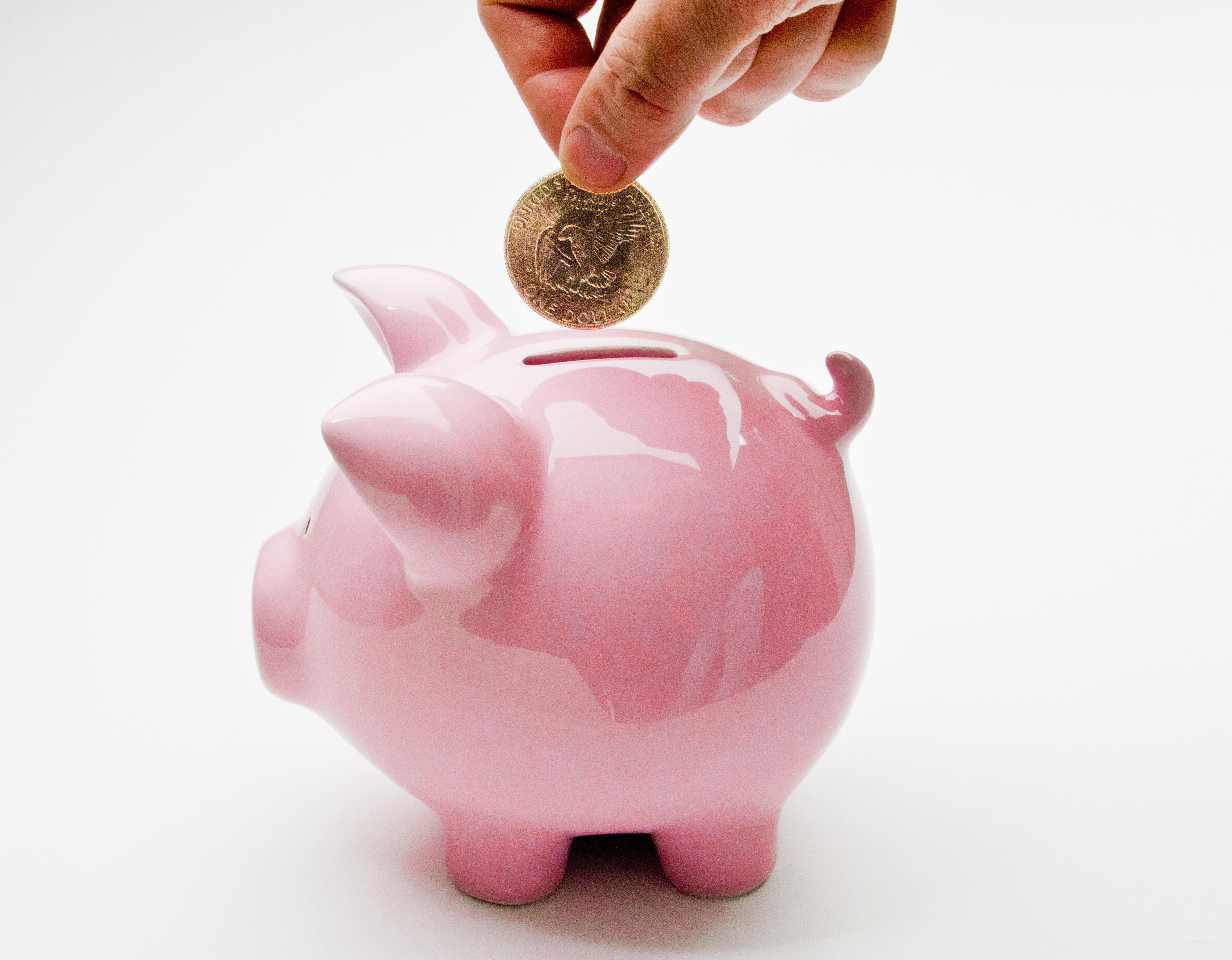 Hand Putting Deposit Into Piggy Bank, shot for